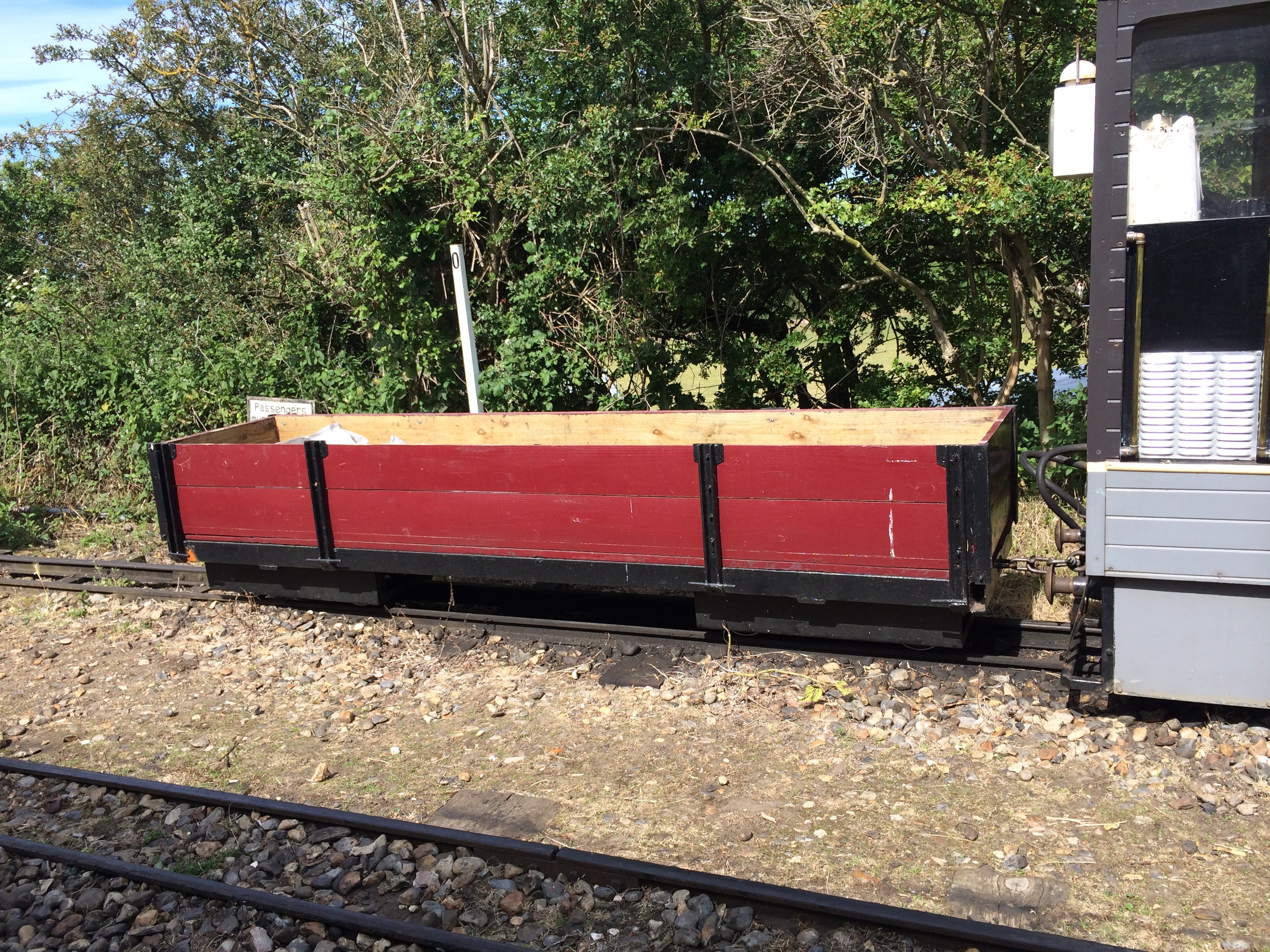 A bogie open wagon on the Wells and Walsingham Light Railway.